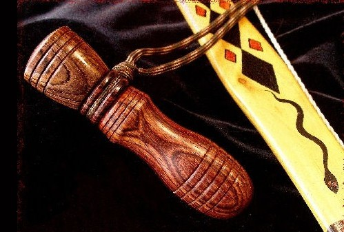 Darrel Aune reproduction traditional fire piston made from Cocobolo